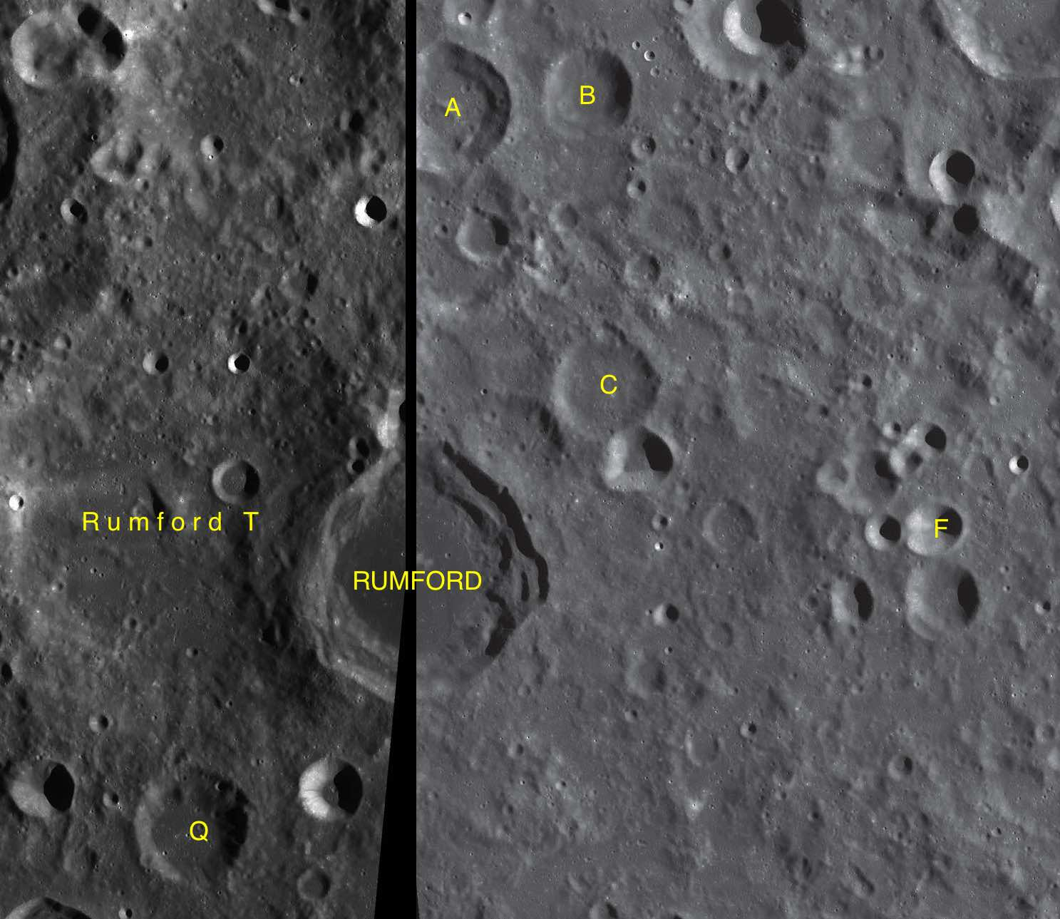 Parts of the charts LAC-104, LAC-105 used for the presentation.